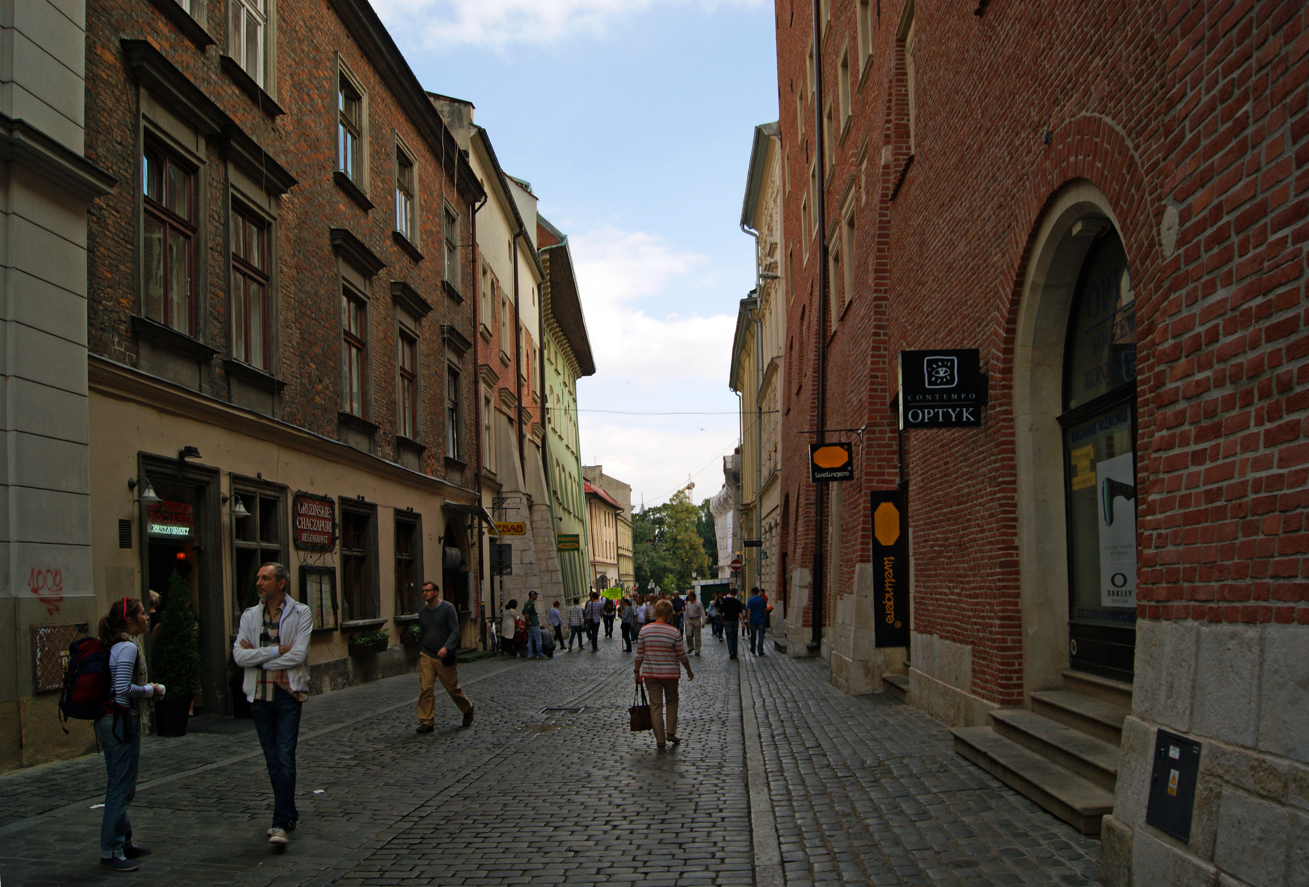 Sienna street (view to E), Old Town, Krakow, Poland